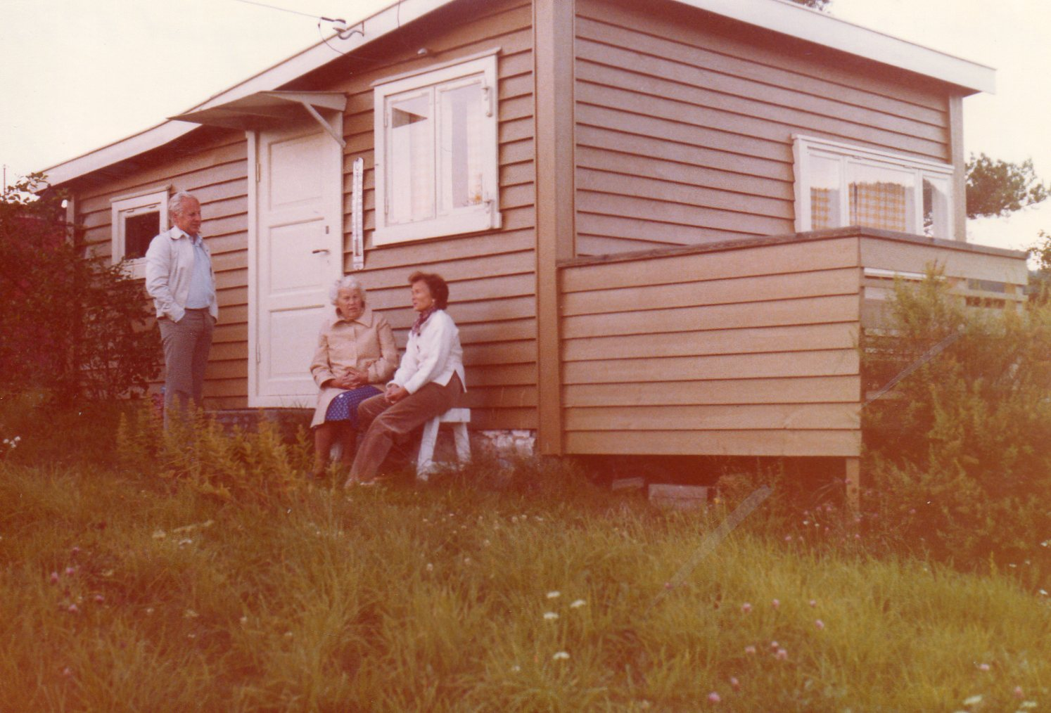 Clasiscal Norwegain cottage by Løken, Røyse langs Tyrifjorden.